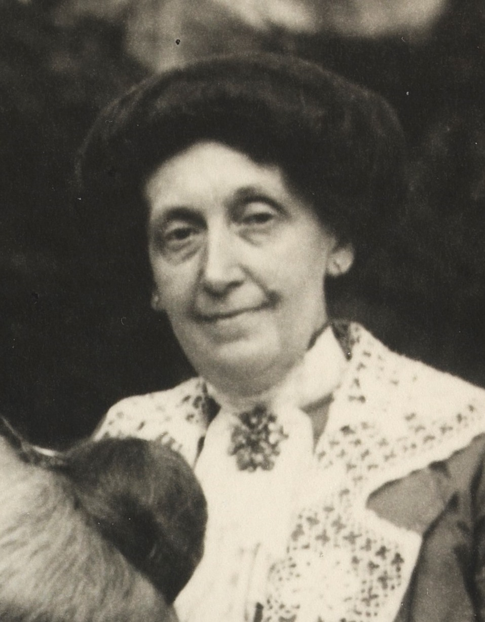 Maja Michelsen - extracted from larger image (see below for original image, and permission)